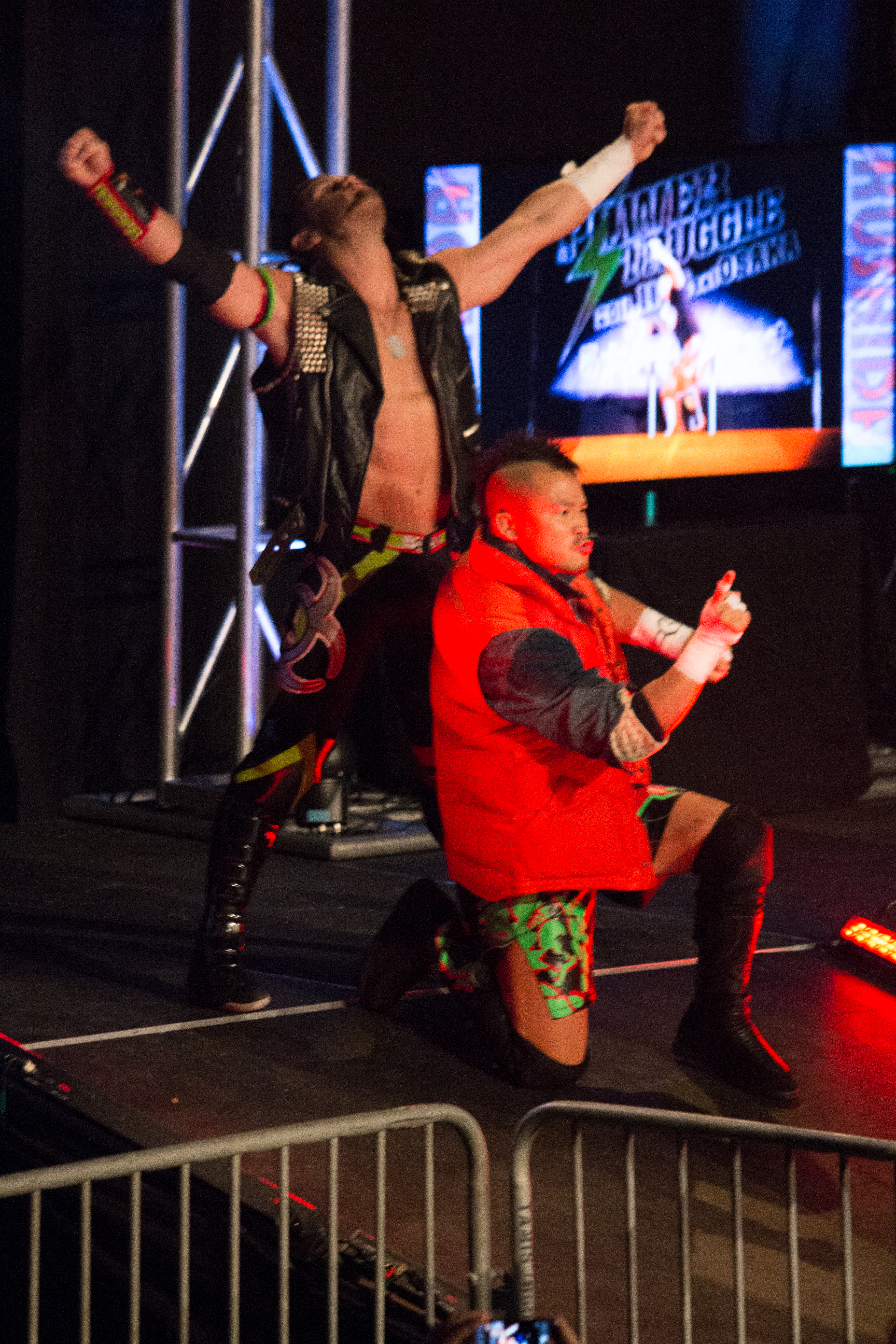 The TimeSplitters - consisting of Alex Shelley (standing) and KUSHIDA (kneeling) - making their entrance at BCW's East Meets West show in Windsor, ON